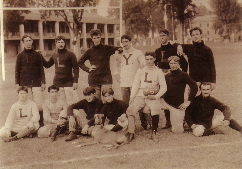 Photo of 1895 LSU Tigers football team.